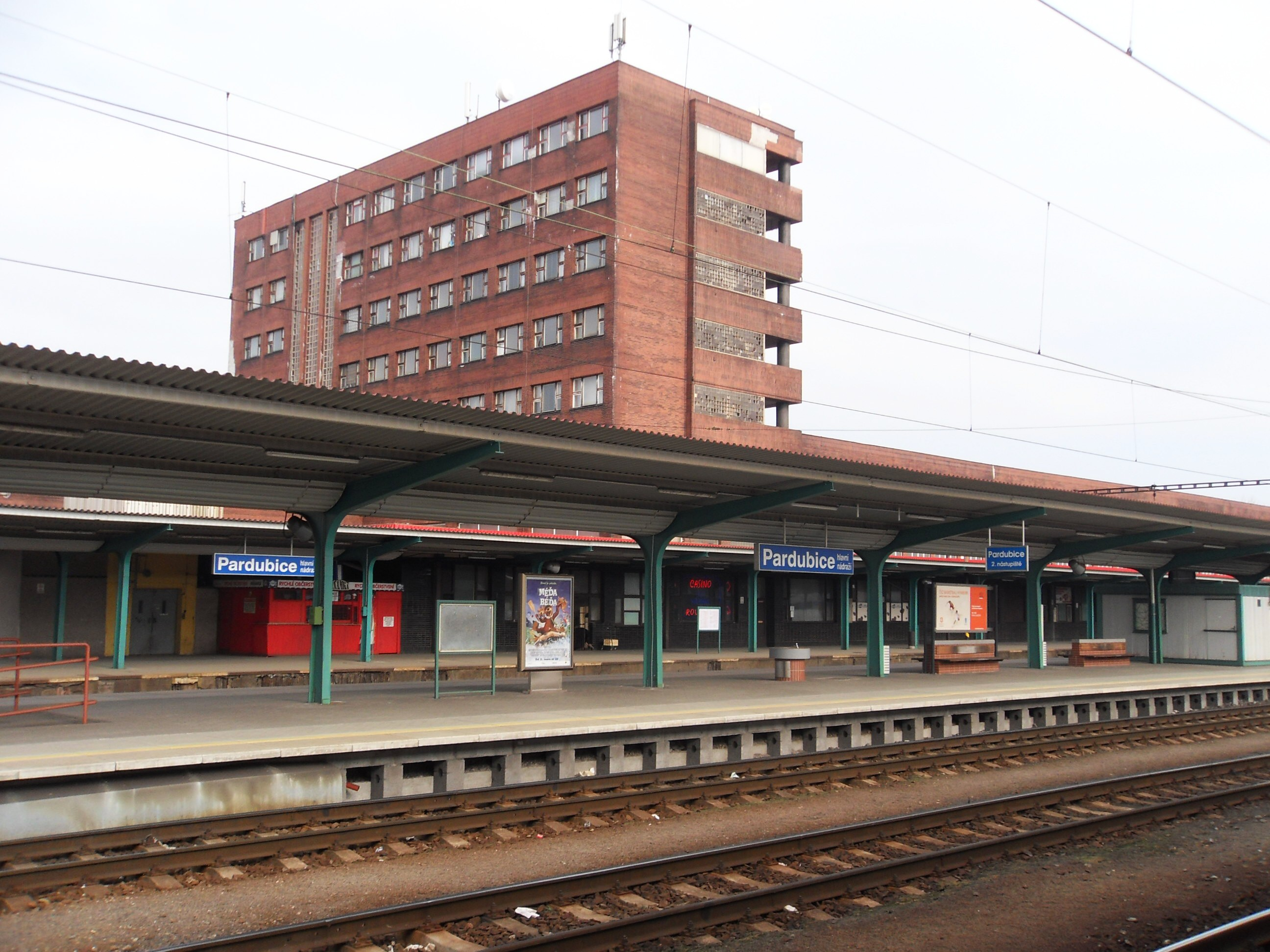 Railway station Pardubice hlavní nádraží, Pardubice, Czech Republic